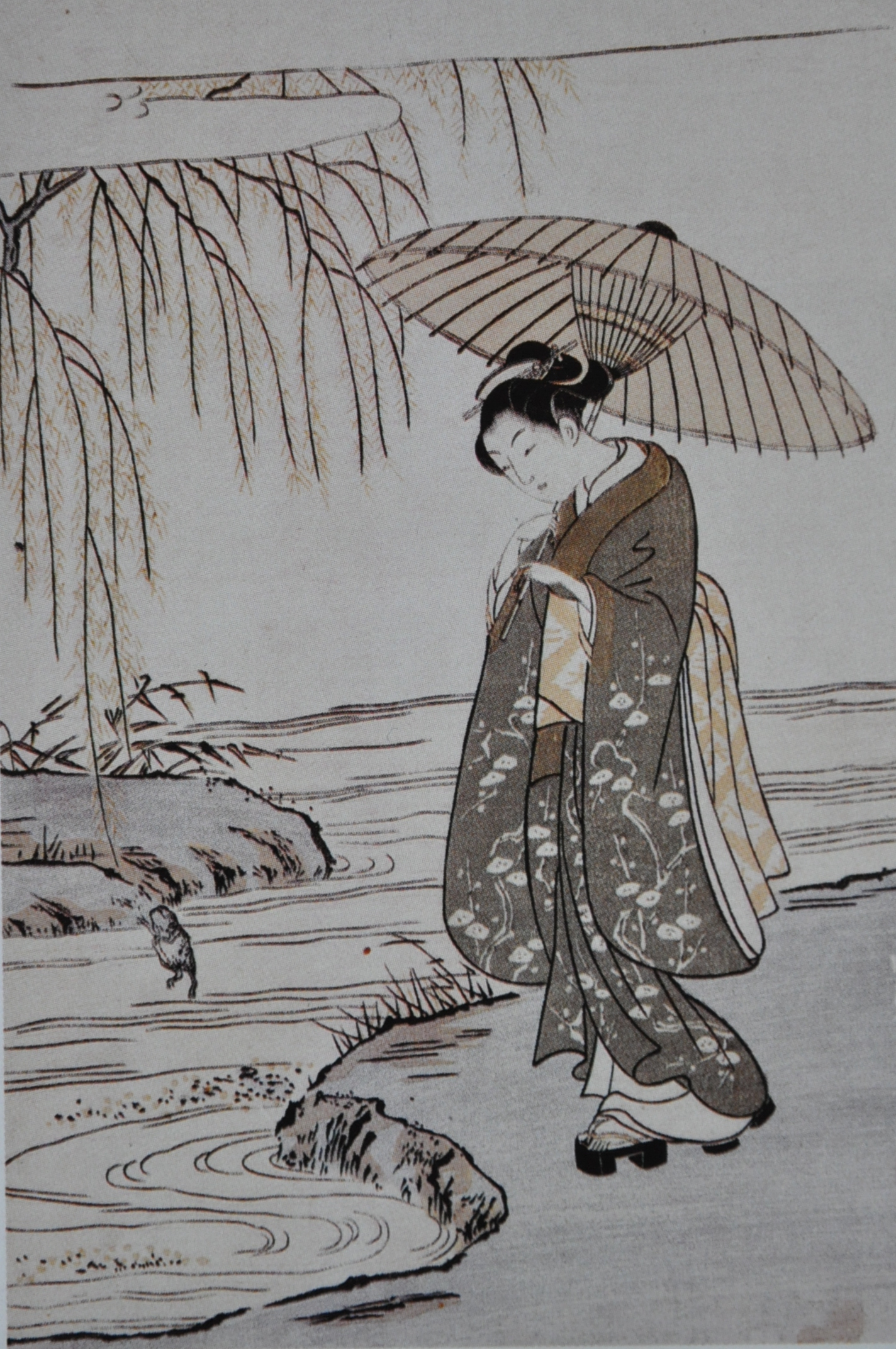 Egoyomi by Suzuki Harunobu, based on a mitate showing 10th century calligraphy expert Ono no Tôfu as a frog missing its aim several times before finally succeeding.